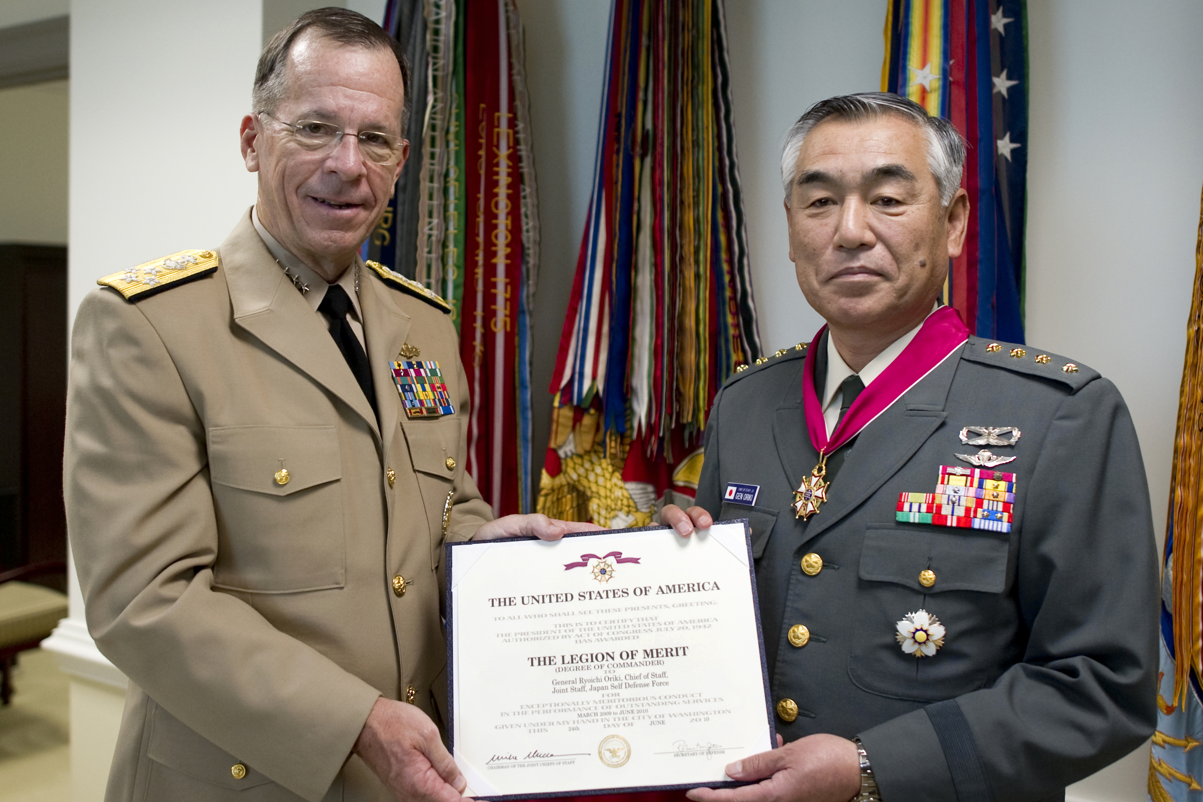 100624-N-0696M-175 Adm. Mike Mullen, chairman of the Joint Chiefs of Staff congratulates Gen. Ryoichi Oriki, chief of staff, Joint Staff, Japanese Self Defense Force after presenting him with the U.S. Legion of Merit at the Pentagon on June 24, 2010. (DoD photo by Mass Communication Specialist Chad J. McNeeley/Released)